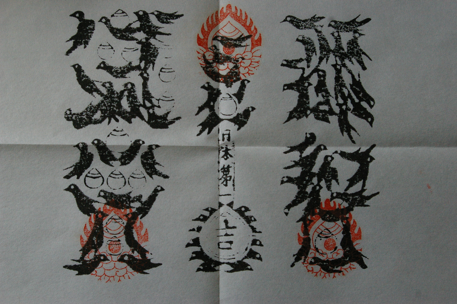 Goouhu of Kumano Nachi Taisha.